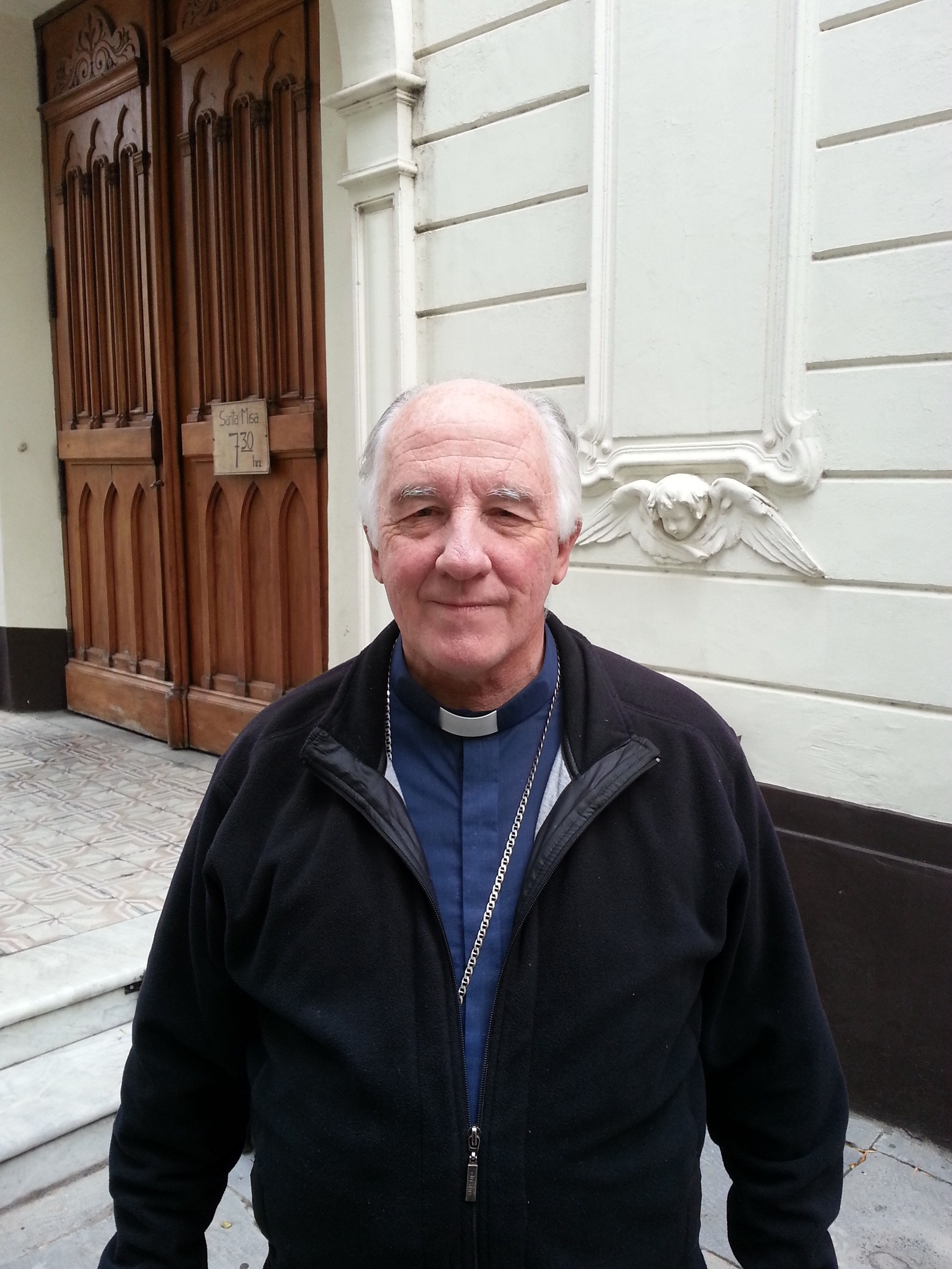 Fernando Carlos Maletti, Bishop of the Diocese of Merlo-Moreno, Argentina